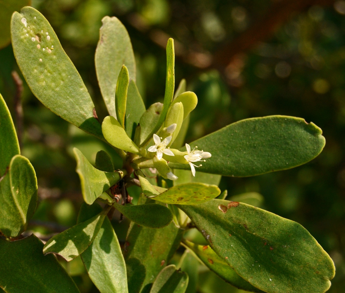 Leaves and flowers of Black Mangrove (Lumnitzera racemosa); from Bama Beach, Baluran National Park, East Java, Indonesia